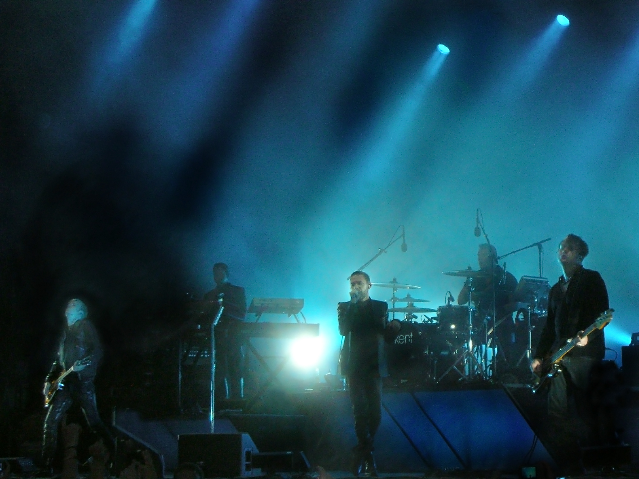 Swedish rock band Kent performing in their hometown of Eskilstuna. Left to right: Sami Sirviö - guitar, Andreas Bovin - keyboards (not a regular member but he joins the band live), Joakim Berg - vocals, Markus Mustonen - drums, Martin Sköld - bass.